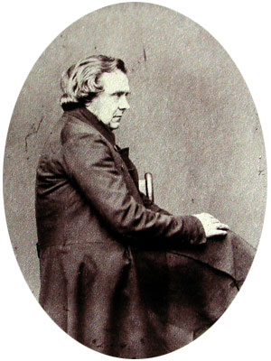 Photo of Samuel Wilberforce by Lewis Carroll at Christ Church, Oxford: This was first published in Carroll's biography by his nephew: Collingwood, Stuart Dodgson (1898) The Life and Letters of Lewis Carroll, London: T. Fisher Unwin, pp. p. 75 Retrieved on 22 December 2010. Probable image number assigned by Dodgson: 0571. Source of date, location and image number